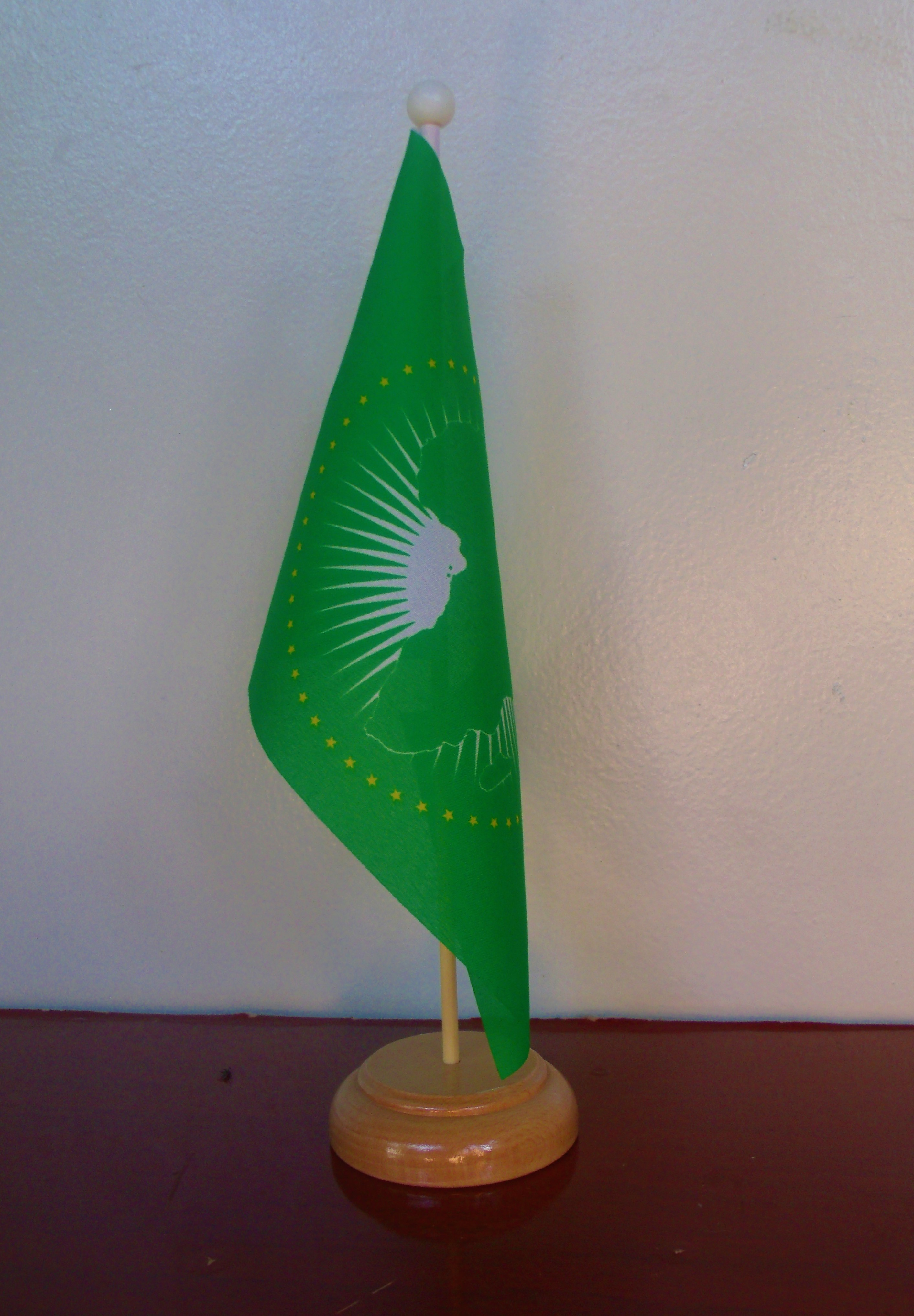 Flags of the African Union, table model.